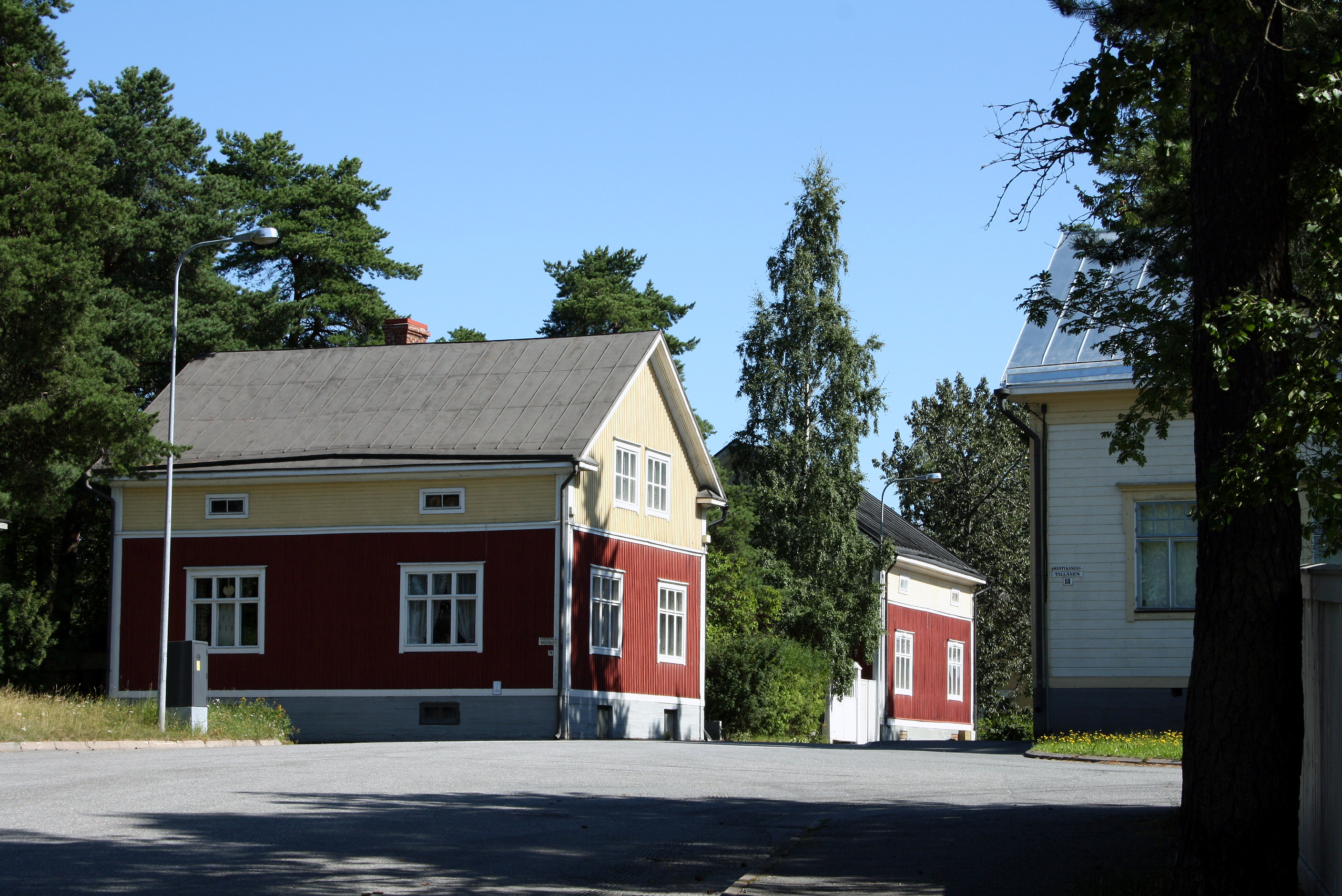 Mäntykangas in Kokkola, Finland